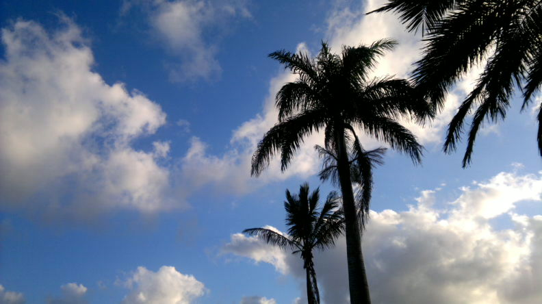 Silhouette of 3 Palm Trees